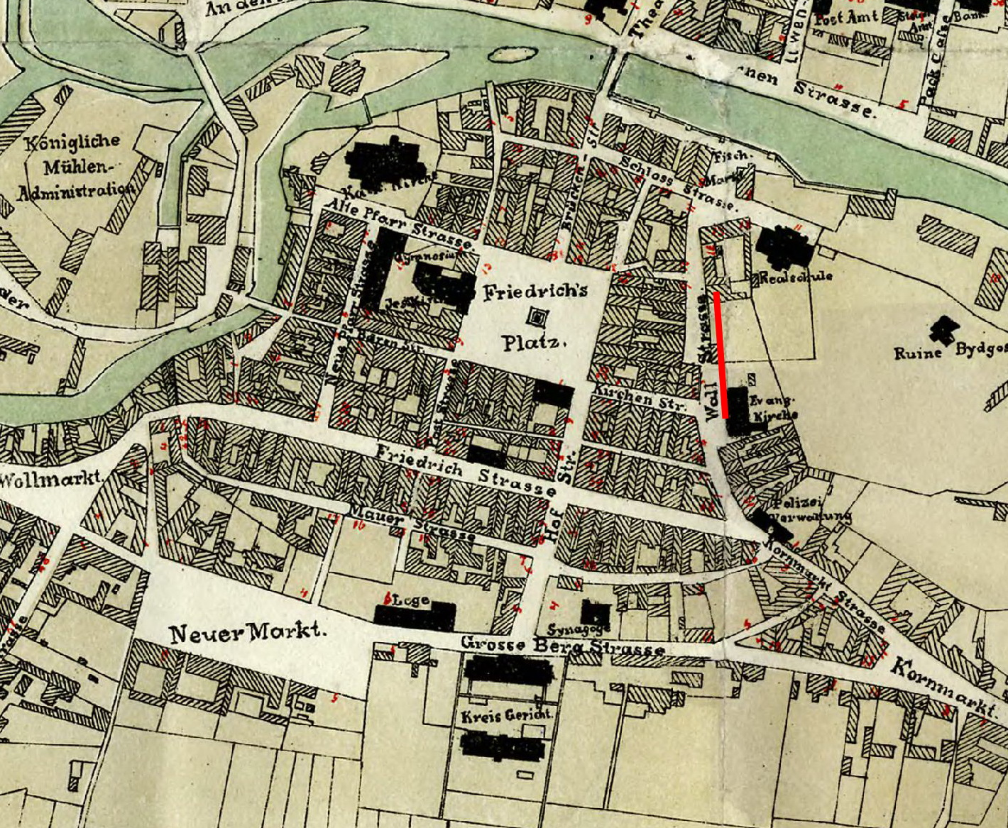 The street underlined on a 1876 map